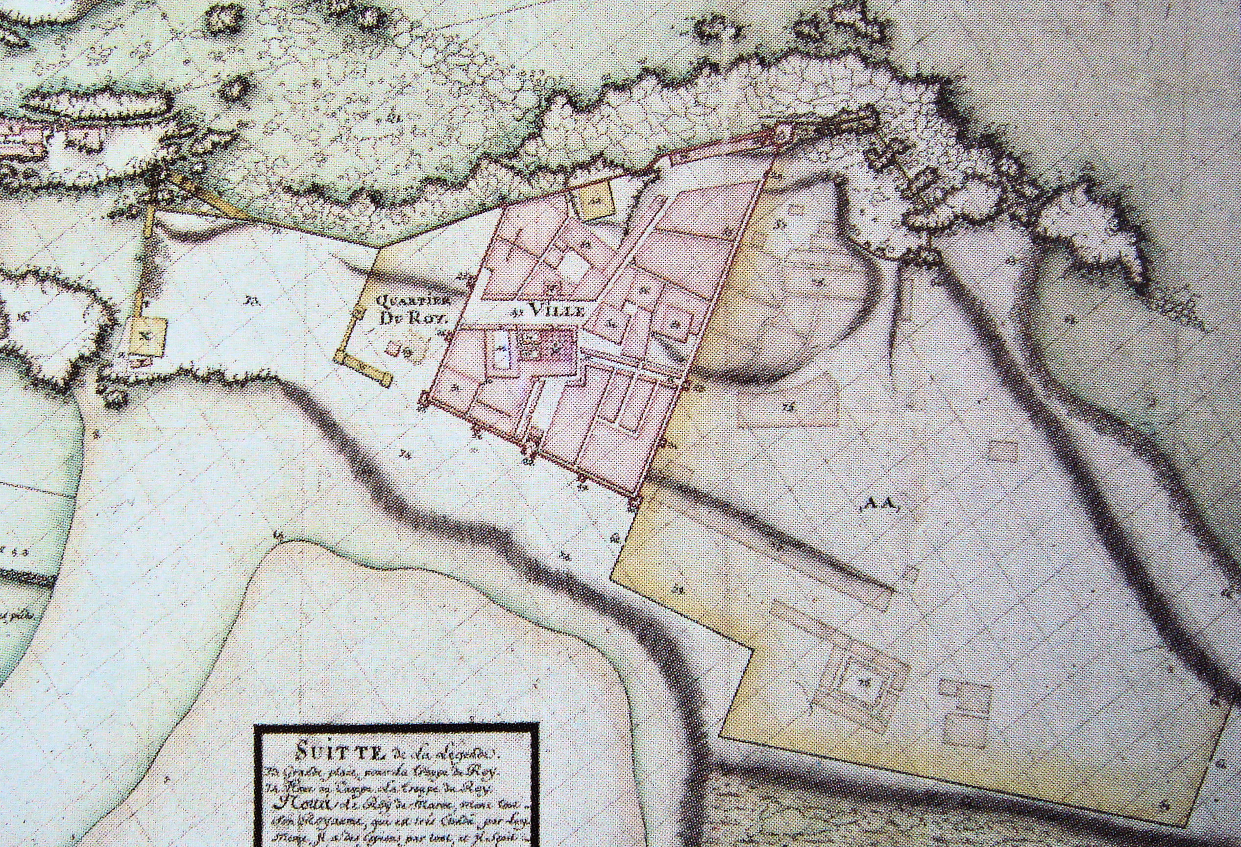 Theodore_Cornut_Essaouira_1767